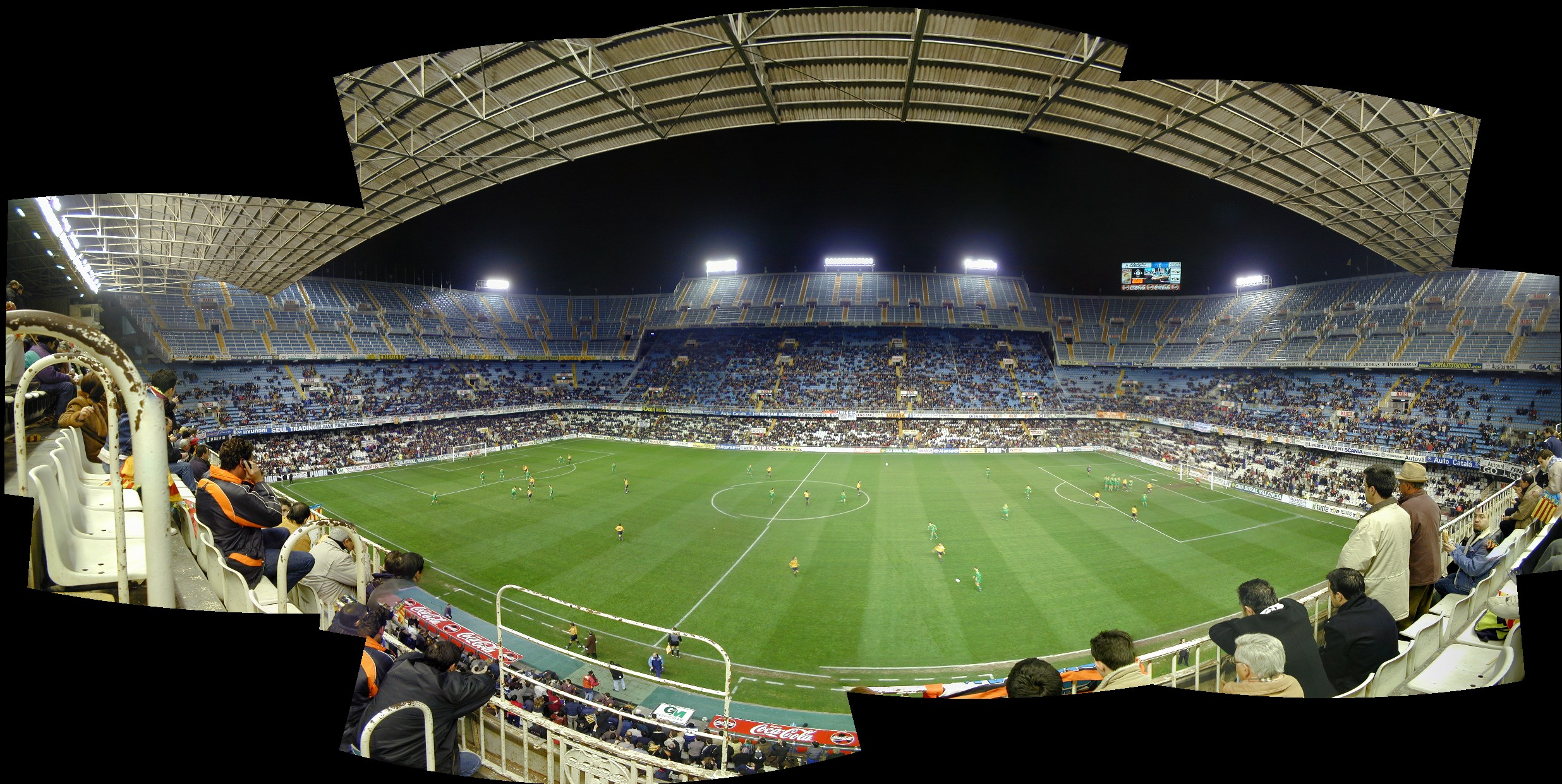 Panoramic view of inside Mestalla, Valencia CF's stadium. Taken December 28th, 2001. Panorama assembled with PtGUI-Smartblend. Camera: Nikon E700